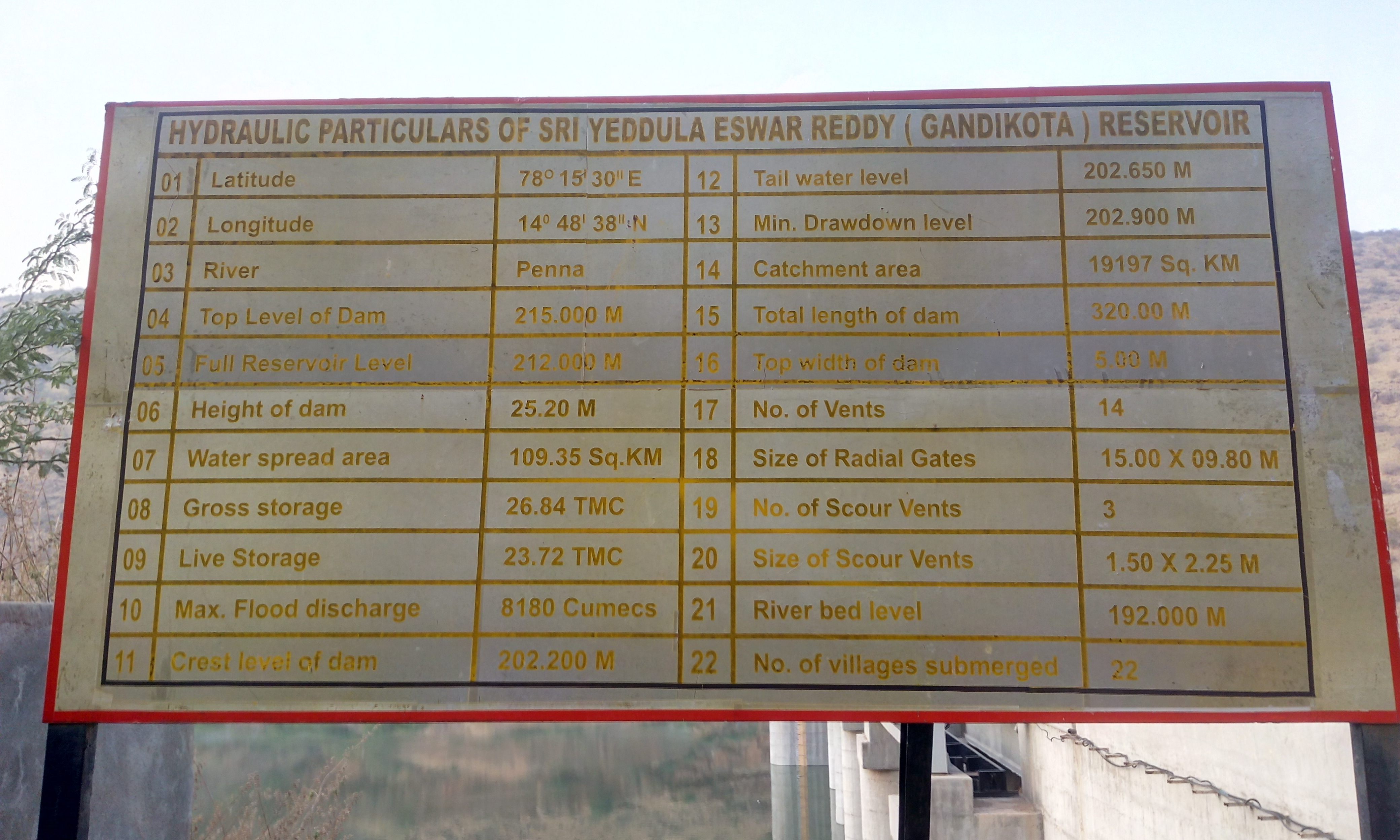 Dam Particulars